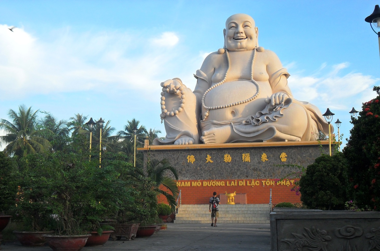 Budai (Bố Đại) statue, god of happiness at Ving Trang (Vĩnh Tràng) Pagoda, Mỹ Tho, Vietnam